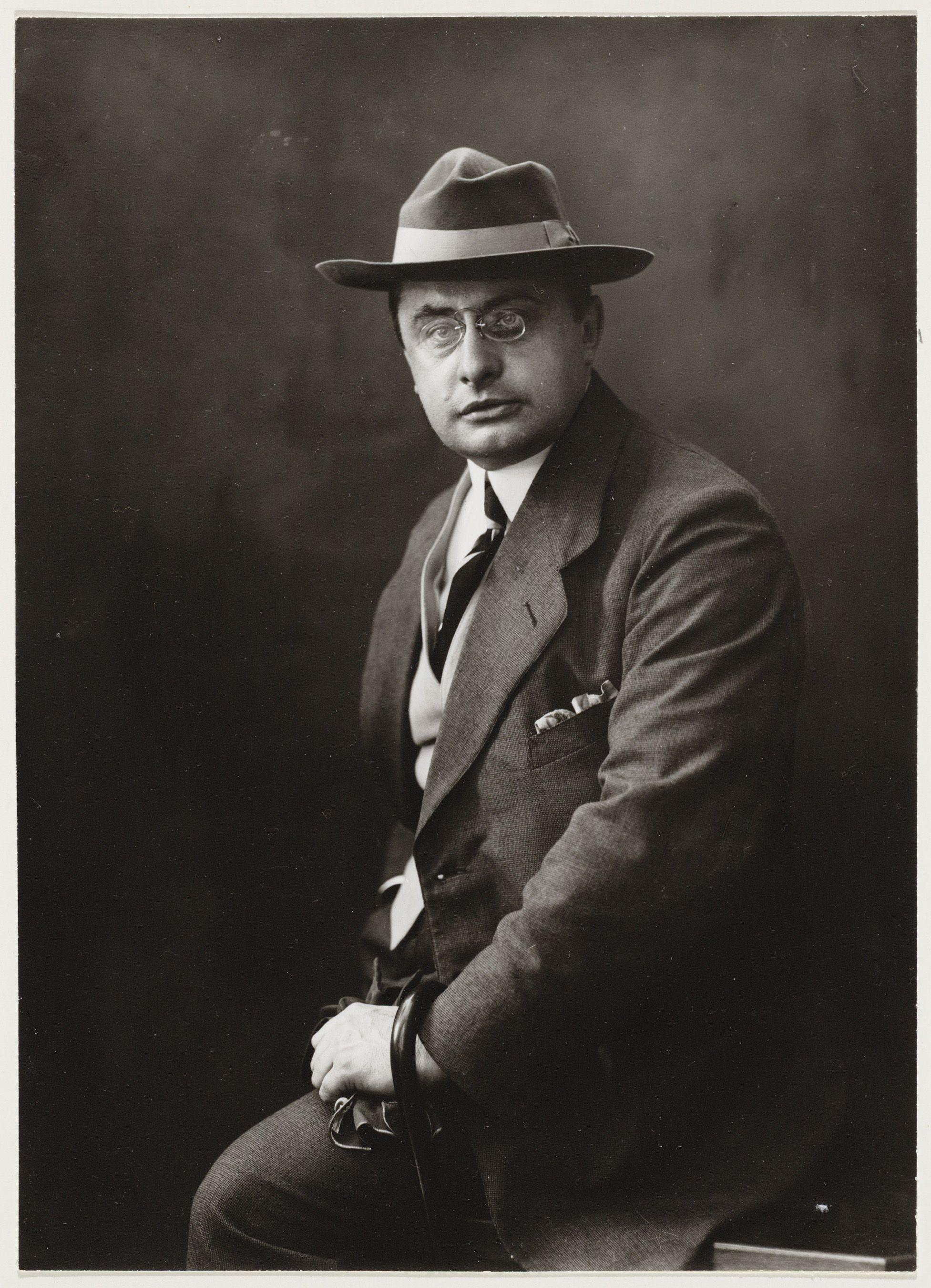 Photograph of Jean Louis Pisuisse by Jacob Merkelbach (1877-1942)